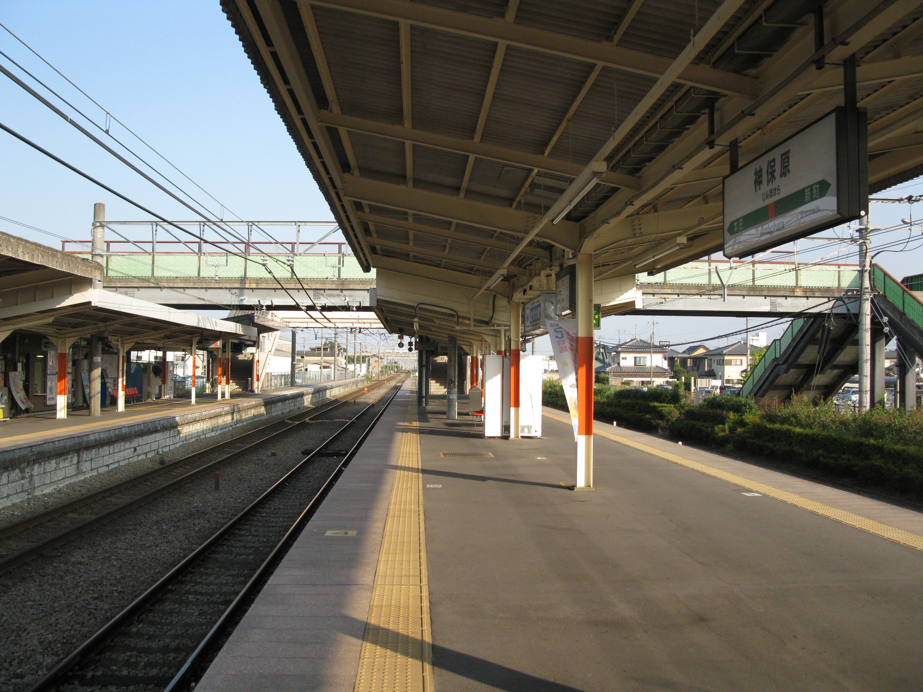 Jimbohara Station platform (East Japan Railway(JR East) Takasaki Line)